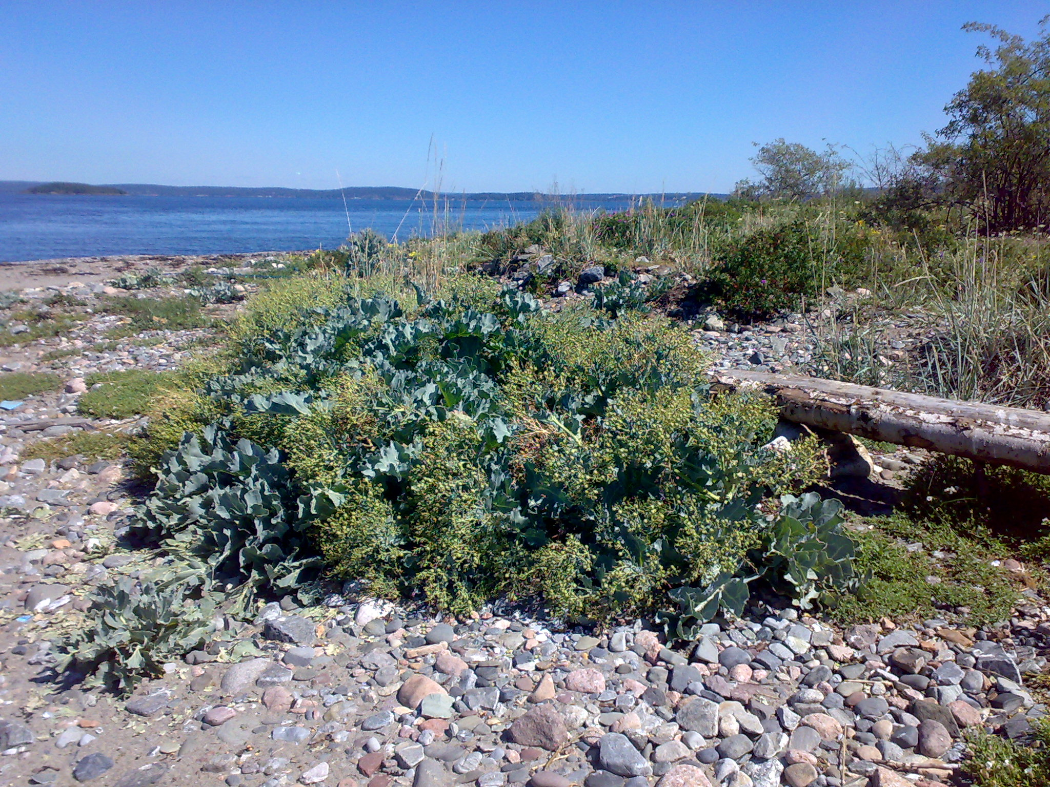 Moelen island in the Oslo Fjord, Hurum municipality, Norway.